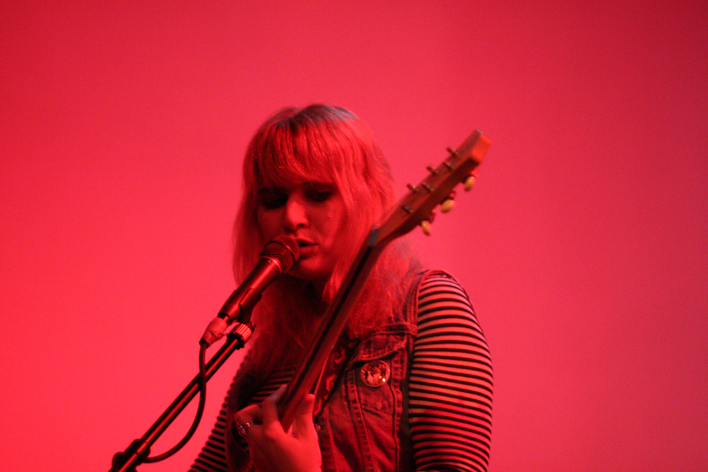 Meth Teeth/Best Coast/Vivian Girls. Live at Holocene. Portland, Oregon. February 11, 2010